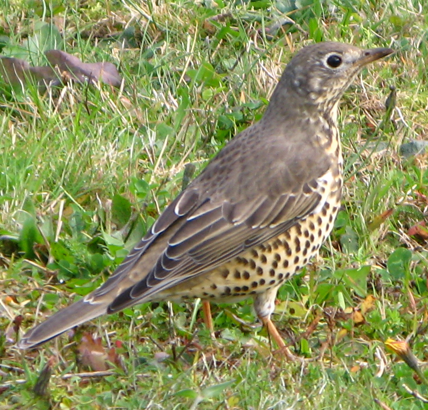 Turdus viscivorus T. philomelos, Karpacz, Poland